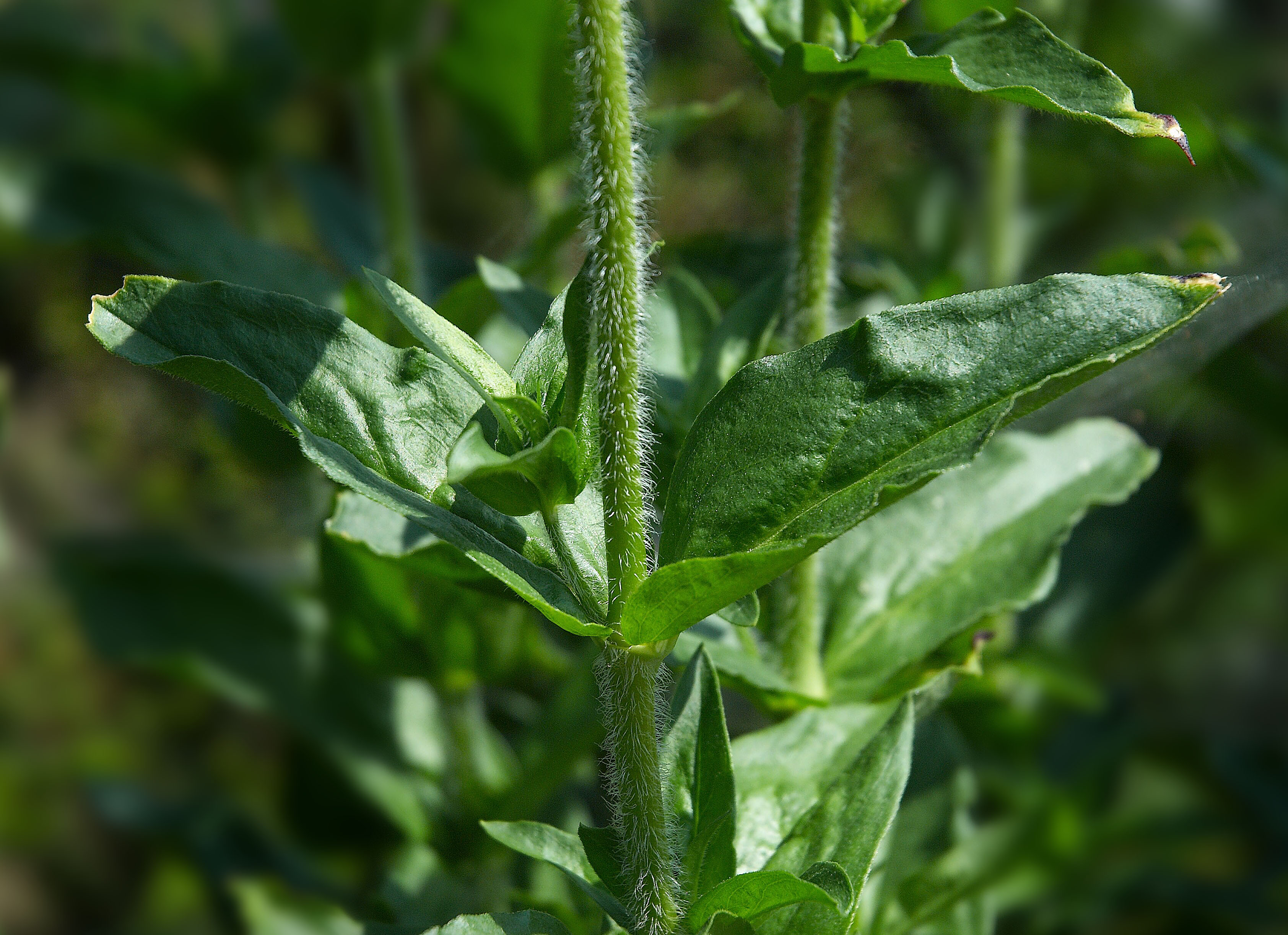 Maltese Cross, Jerusalem Cross, Dusky Salmon, Burning Love, or Nonesuch